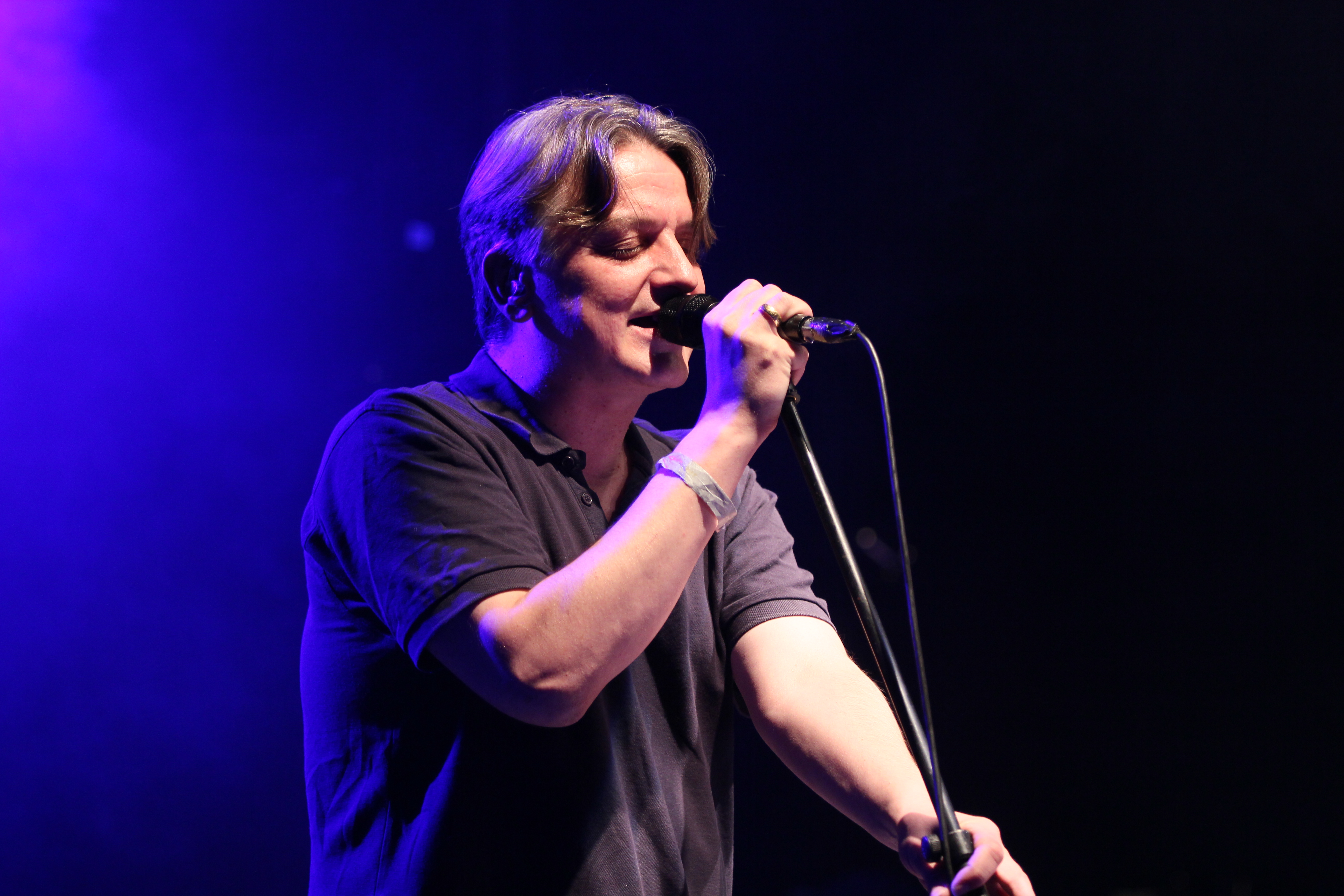 The German singer Peter Heppner at the Nocturnal Culture Night 9 2014 in Deutzen/Germany